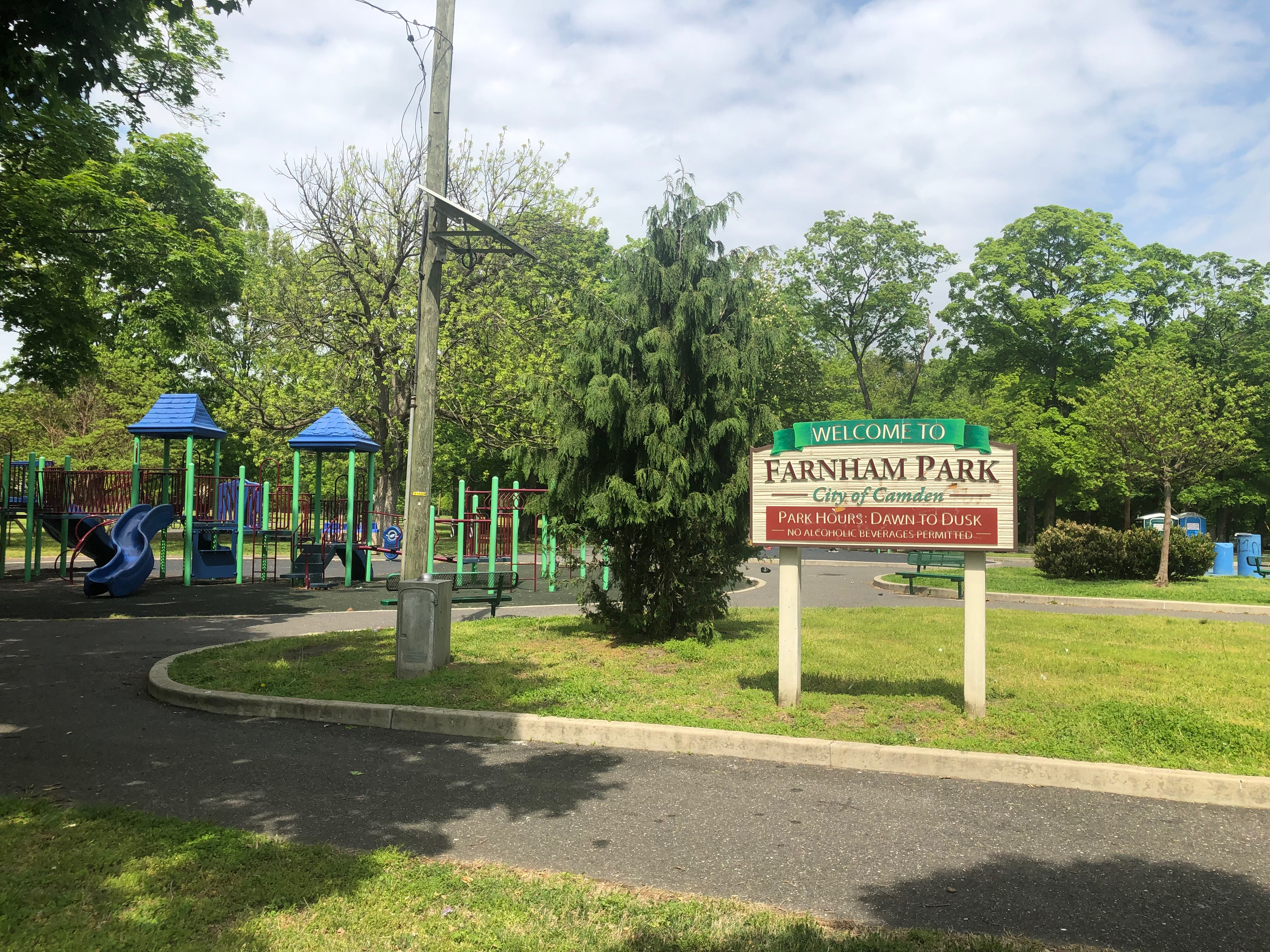 The playground with the Farnham Park in the forefront.